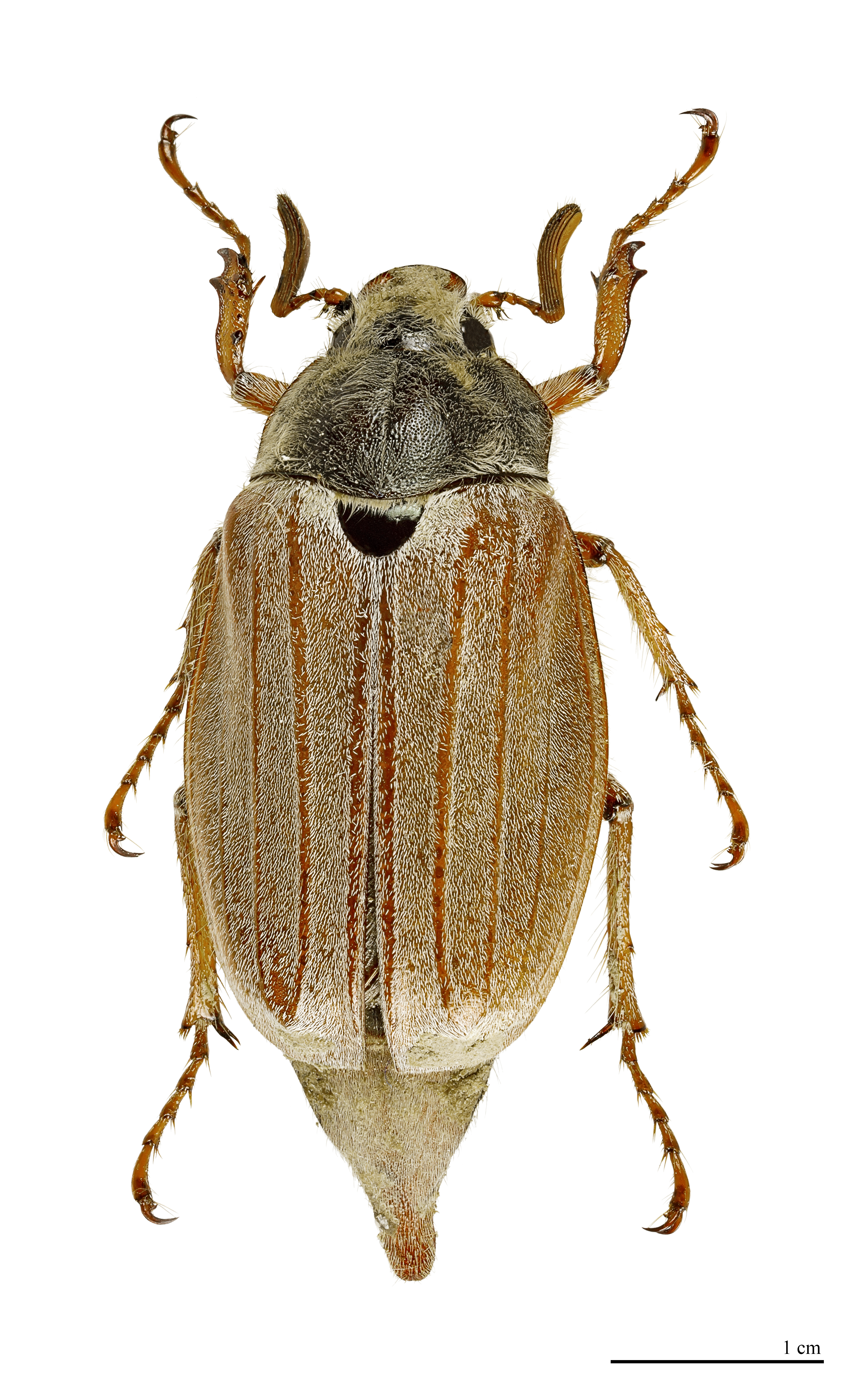 Common Cockchafer - Male - Dorsal side Locality: Carbonnel, Rieux-de-Pelleport, Ariège, France